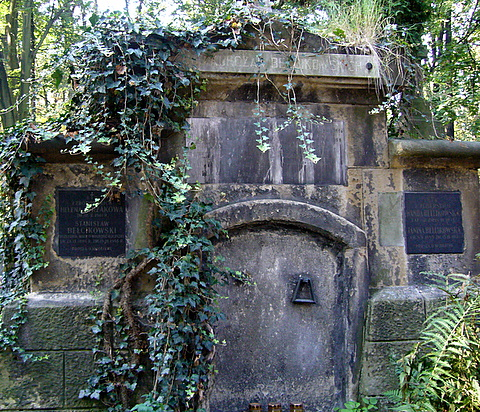 tomb of the Belcikowsky family